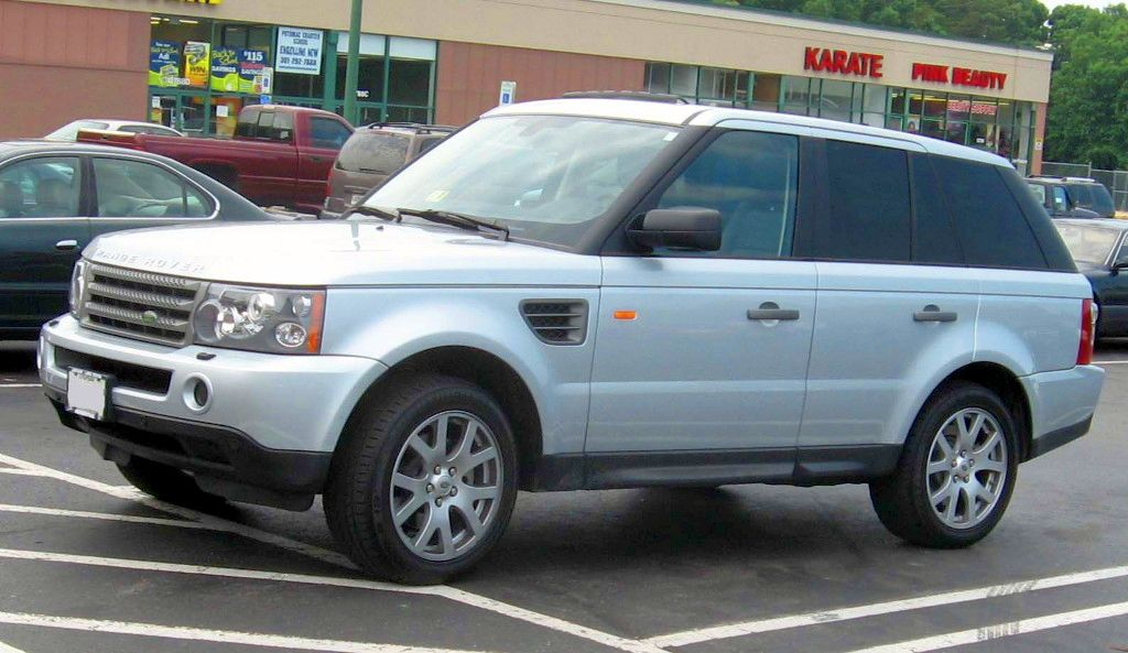 Range Rover Sport photographed in USA.